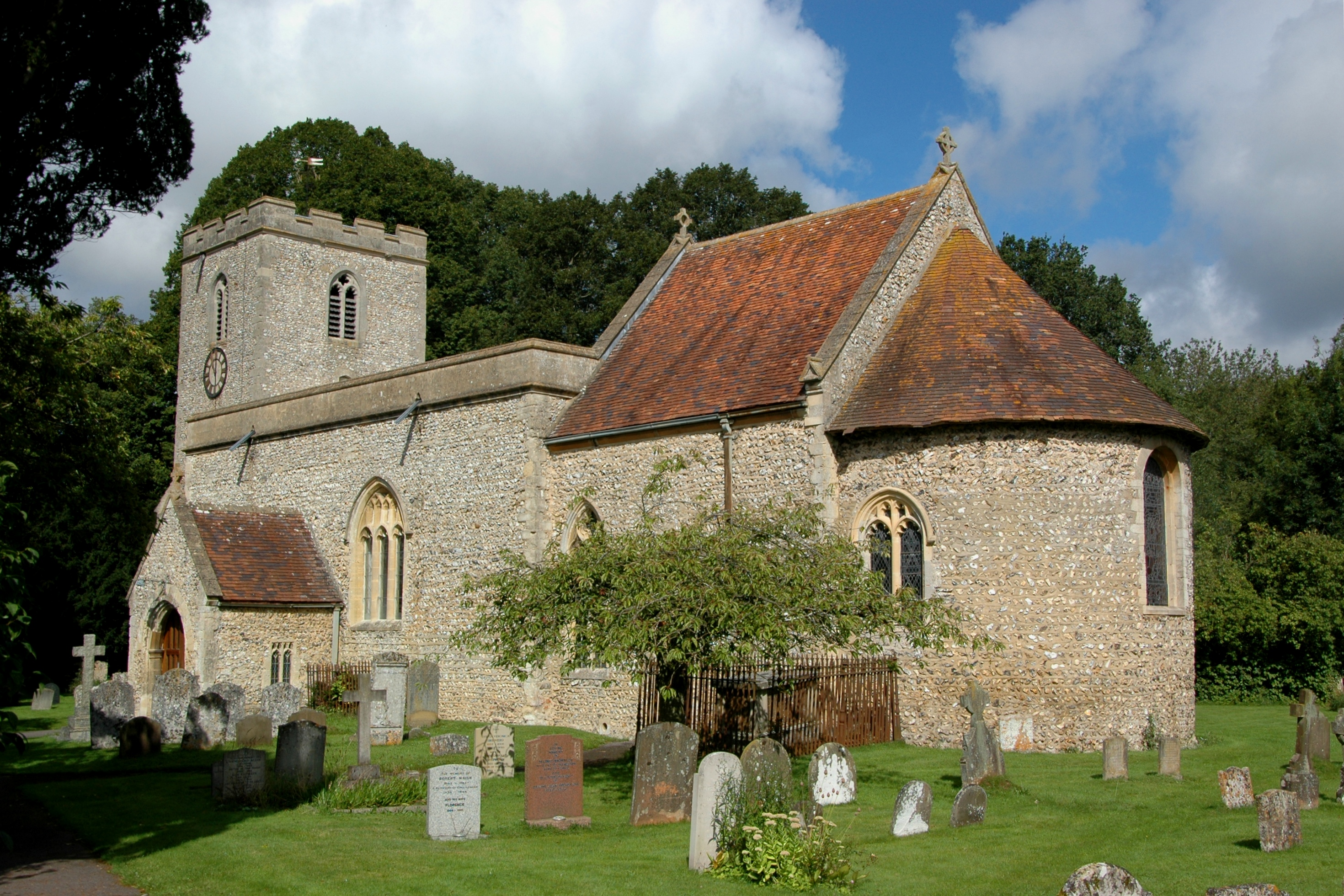 Church of England parish church of Saints Peter and Paul, Checkendon, Oxfordshire, seen from the southeast